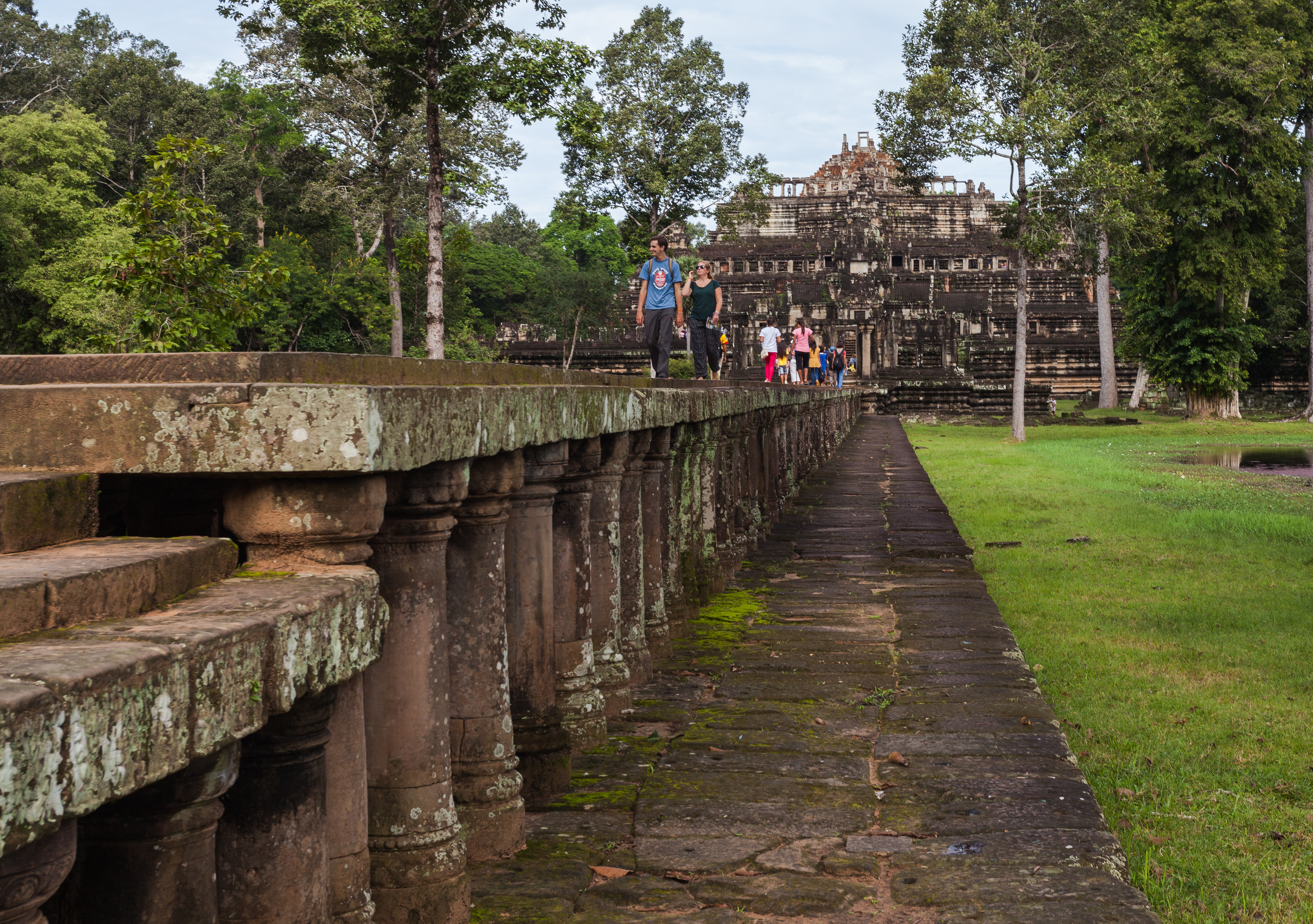 Baphuon, Angkor Thom, Cambodia